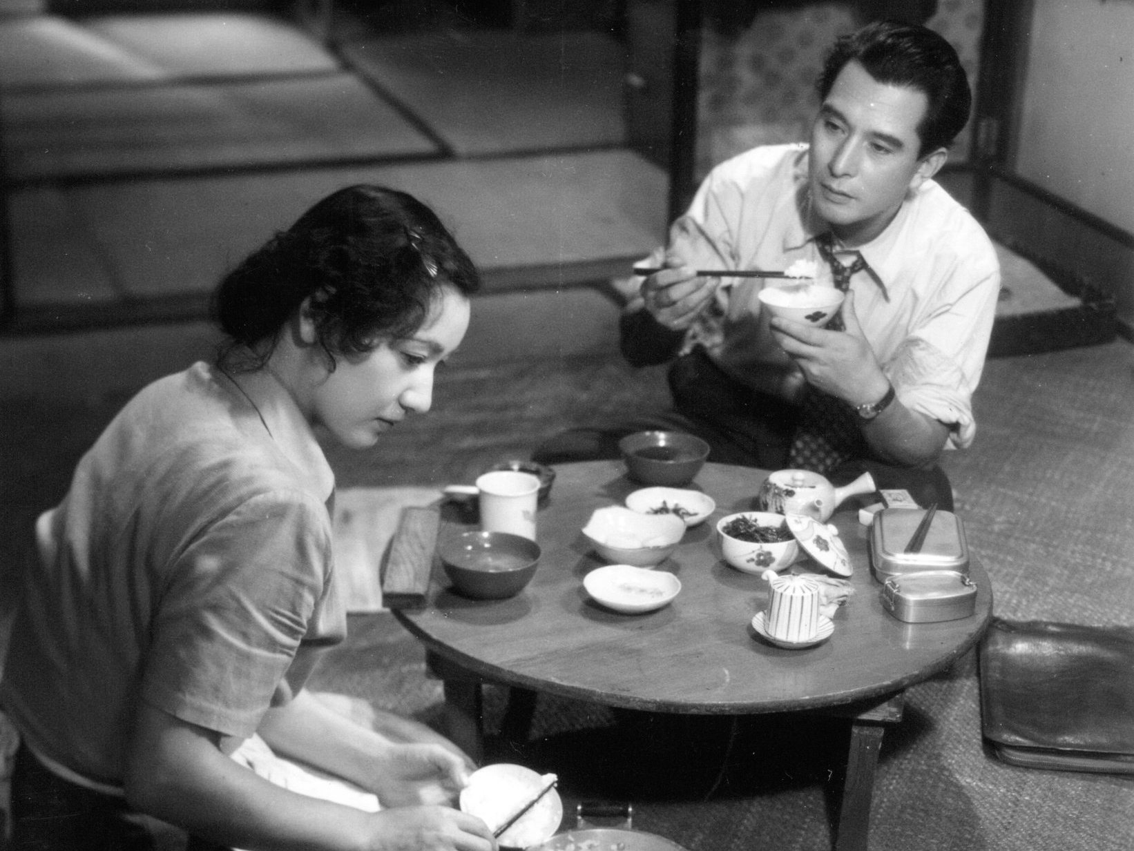 Setsuko Hara and Ken Uehara in 1951 Japanese movie Meshi (Repast (film)).